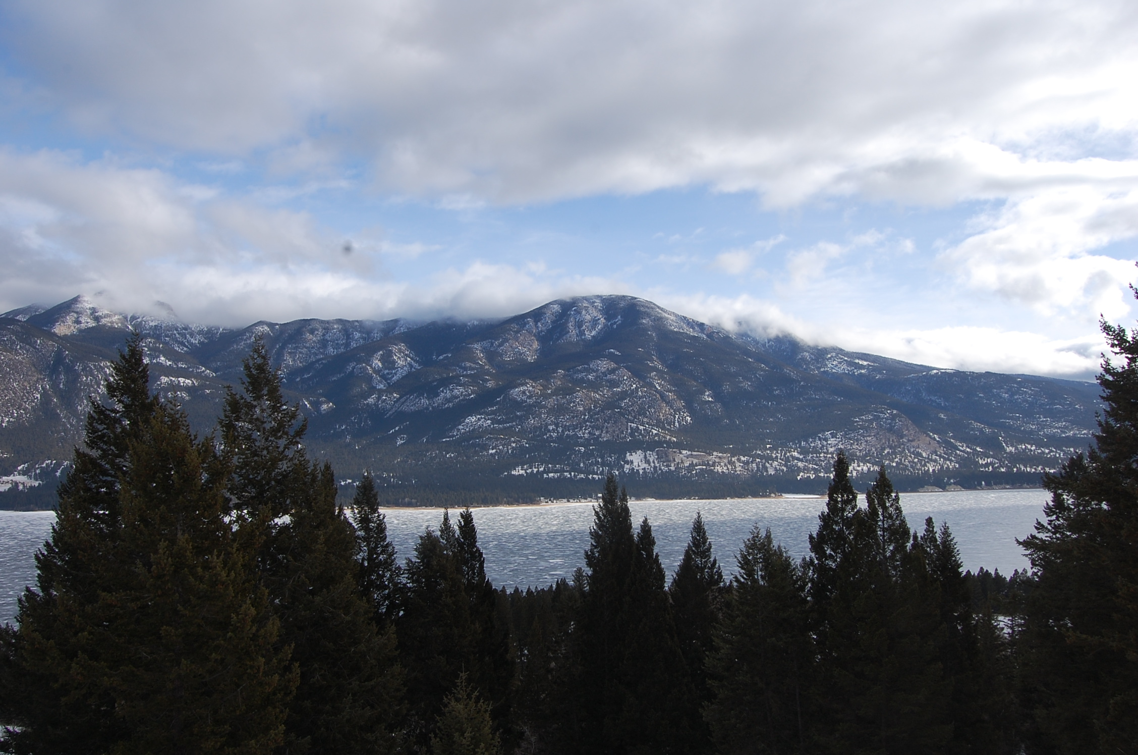 Columbia Lake sunset setting in on a winters day. Taken by Chris Kanaan